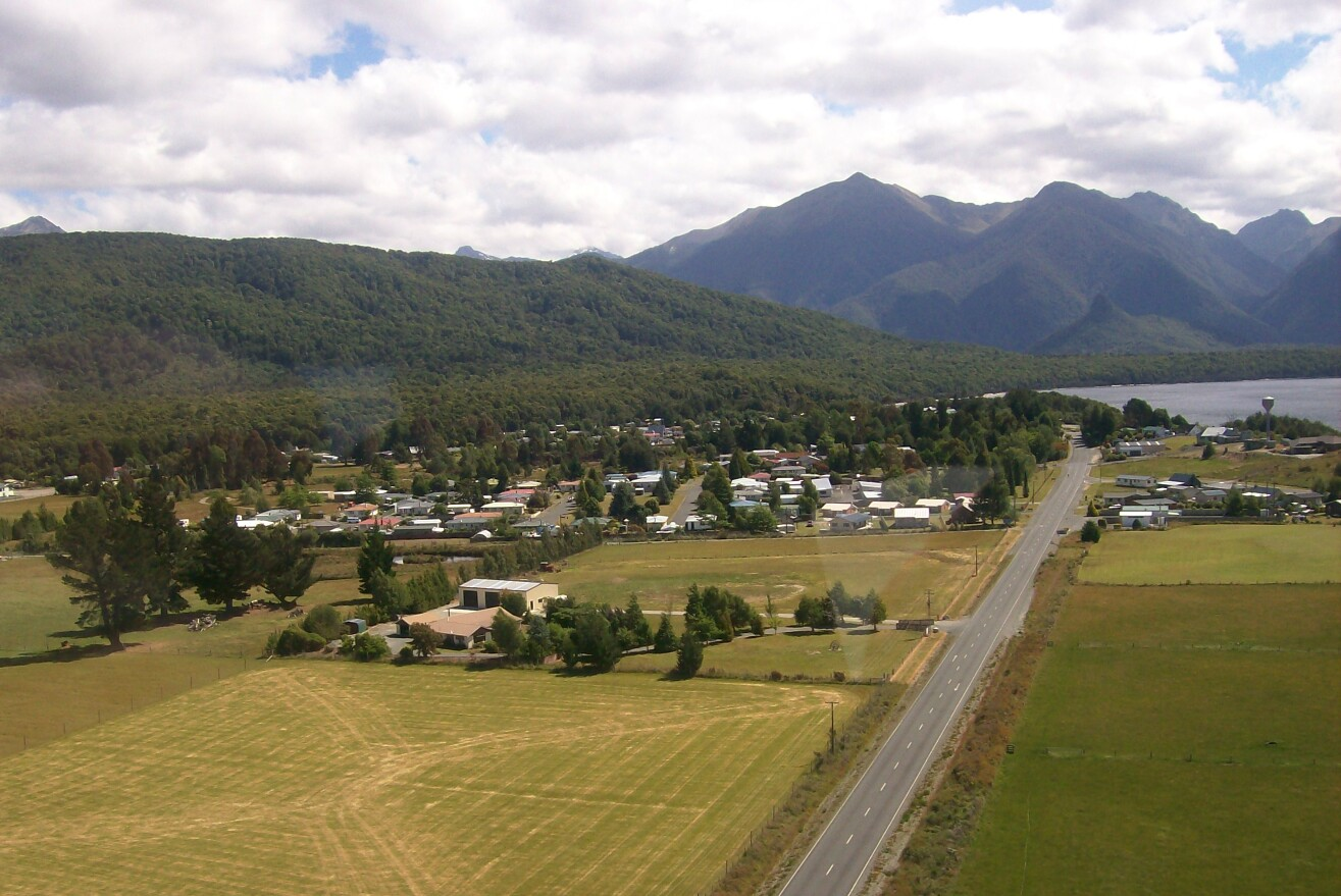 Manapouri Township from above Hillside Road near Lake Manapouri, Fiordland National Park, New Zealand by Edwin Nicholson aged 8